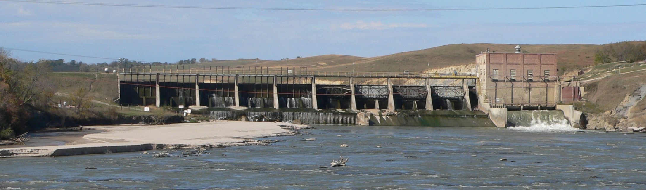 Spencer Dam, on the Niobrara River between Boyd and Holt County, Nebraska; seen from the east (downstream). The photo was taken from the U.S. Highway 281 bridge over the river.